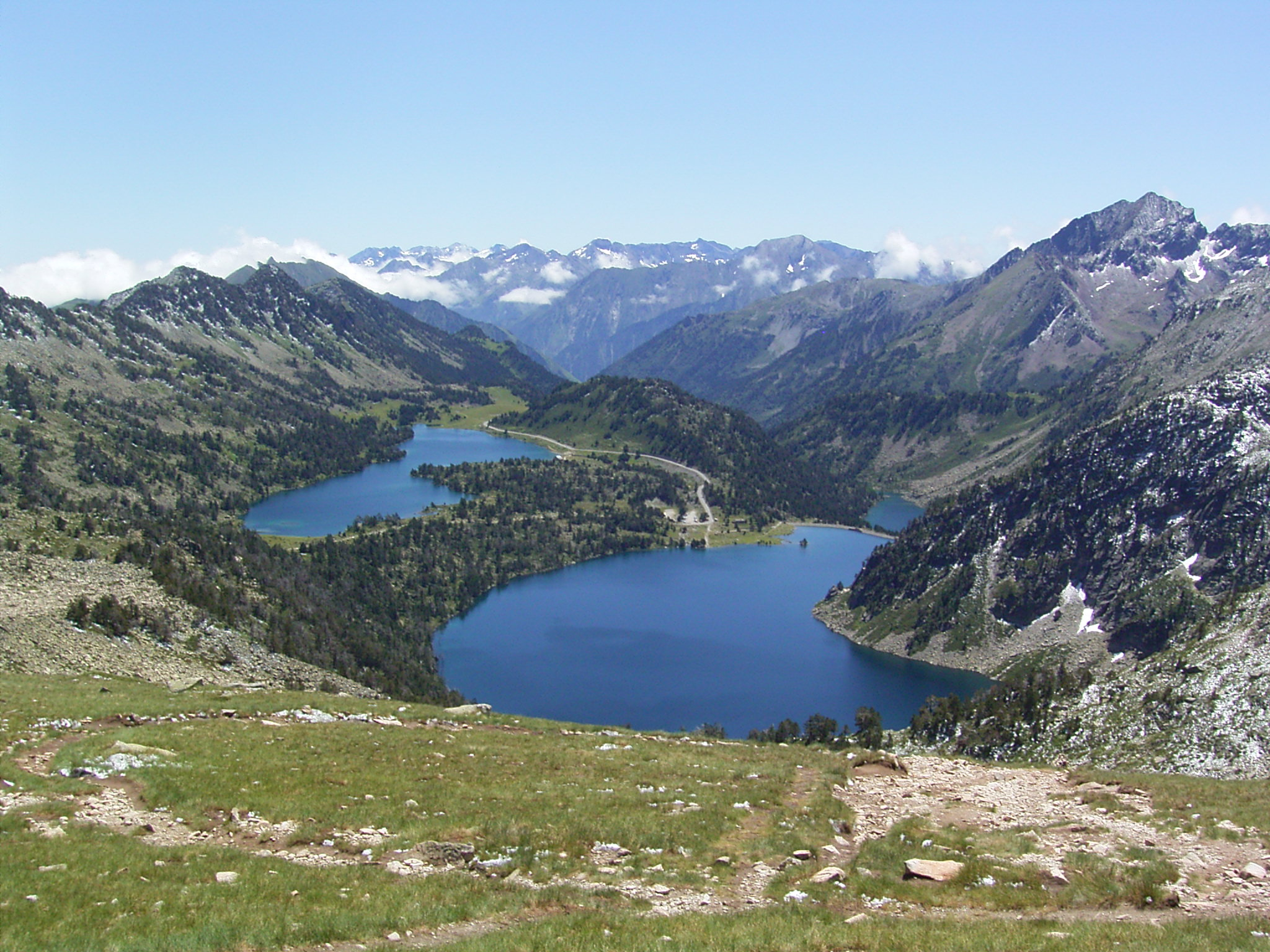 Aubert lake (right) and Aumar lake (left), Pyrénées, France